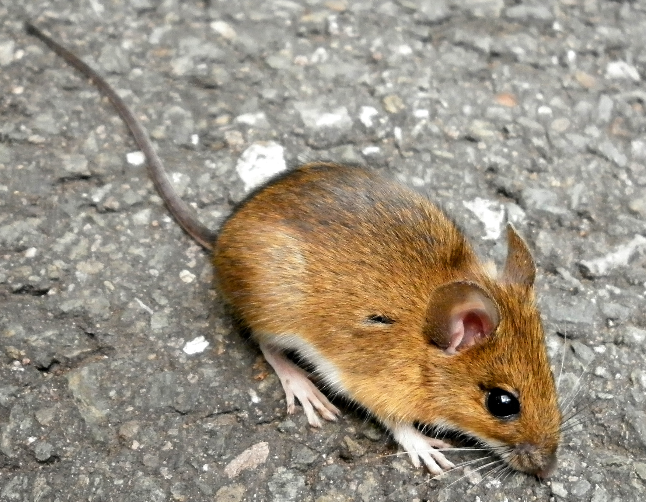 Apodemus flavicollis, National natural monument "Babiččino údolí" in Náchod District, Czech Republic